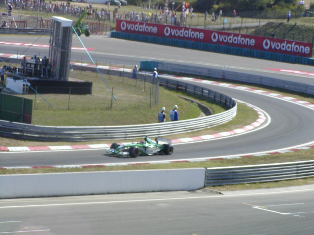 Justin Wilson (Jaguar) entering pits at the 2003 Hungarian Grand Prix.